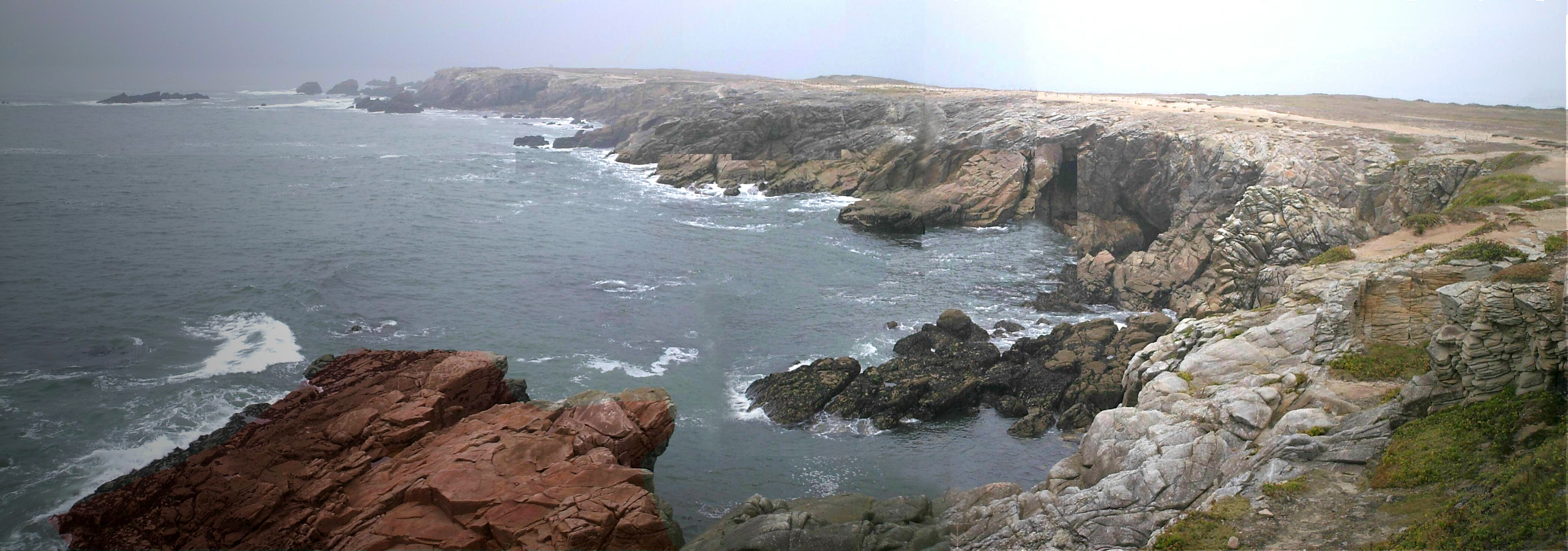 Quiberon